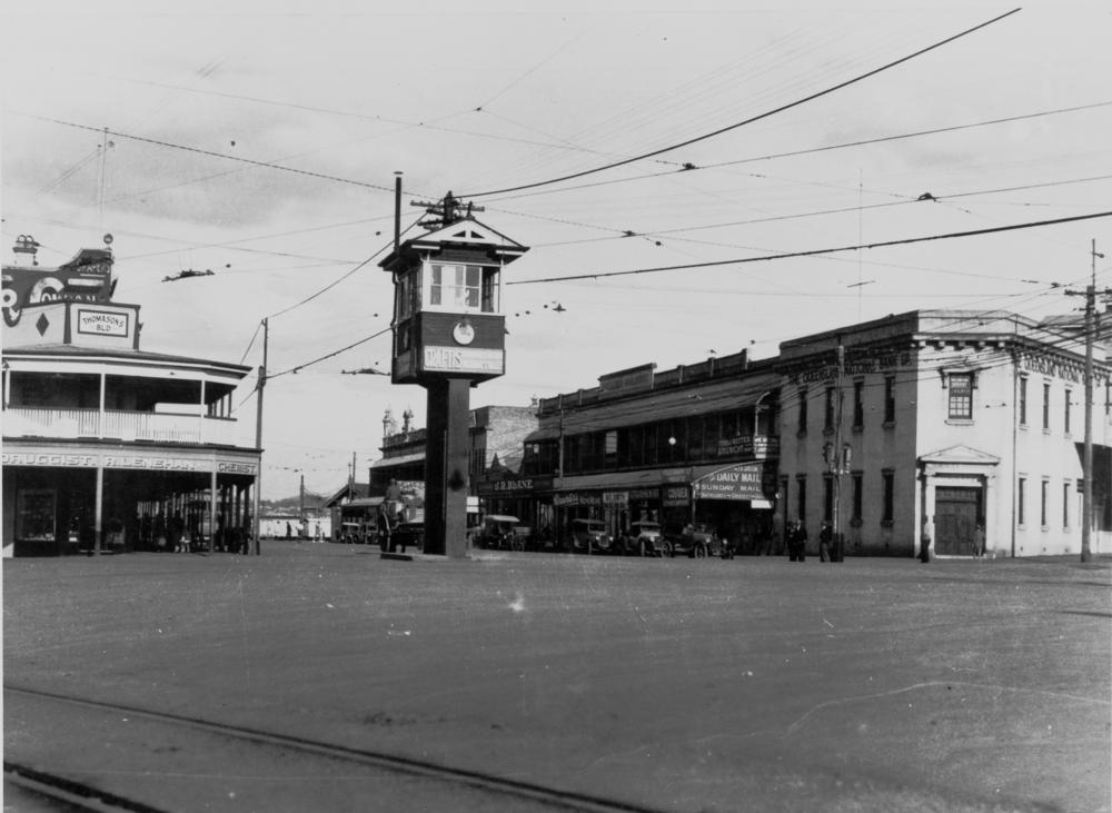 Gabba Fiveways at Woolloongabba, Brisbane, ca. 1929 Tram traffic was directed by a signalman in this box above the 'Gabba Fiveways'. Shops in Logan Road can be seen behind, with Ipswich Road to the right.